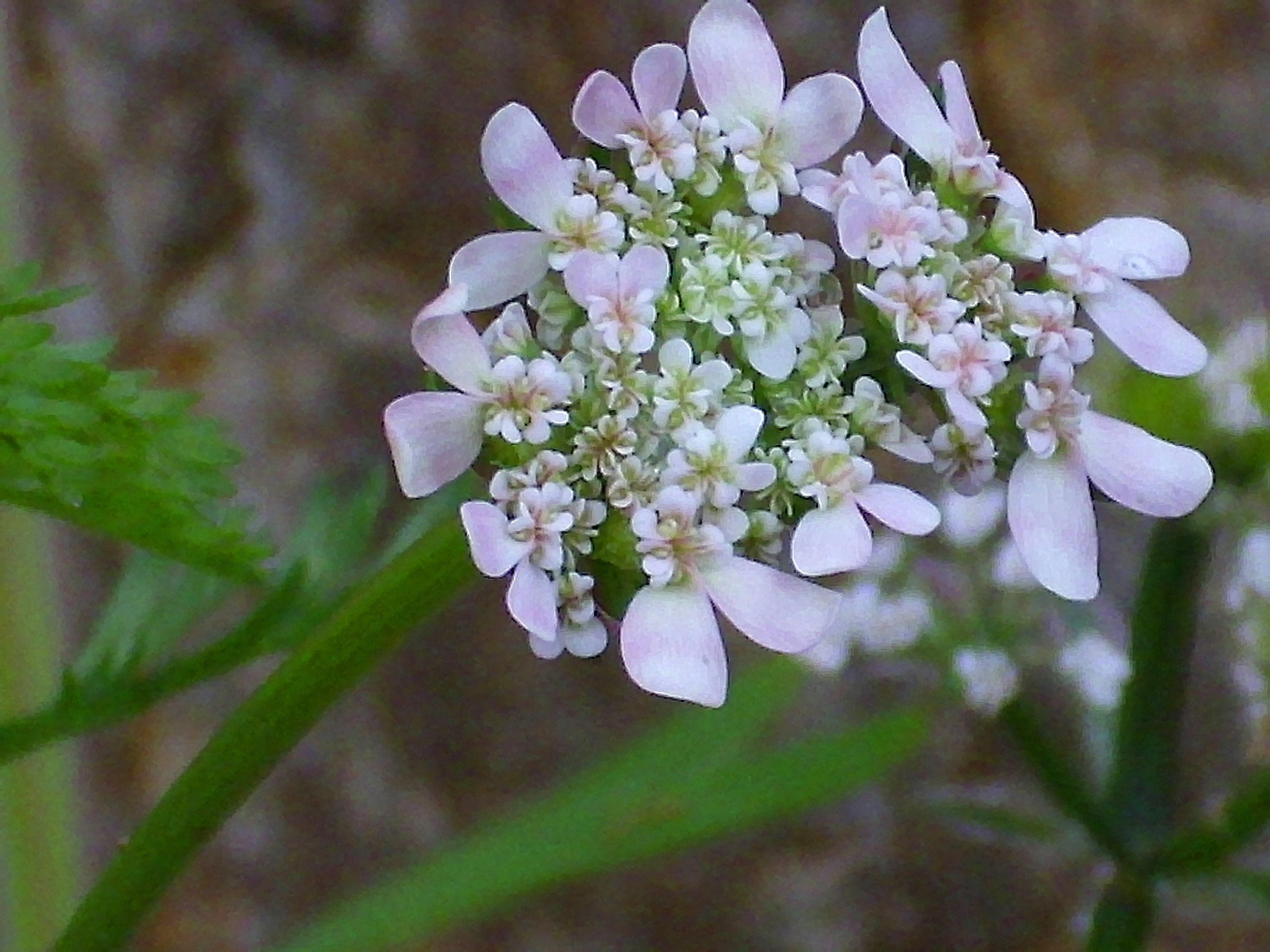 Orlaya daucoides inflorescence, Sierra Madrona, Spain